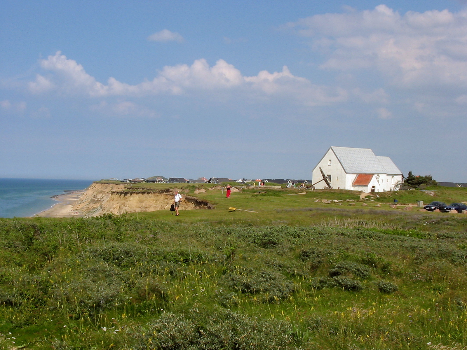 Mårup church in the Danish city of Lønstrup (Vendsyssel / Jutland, North Sea). The church was disassembled in 2008; the photograph was taken in 2004.